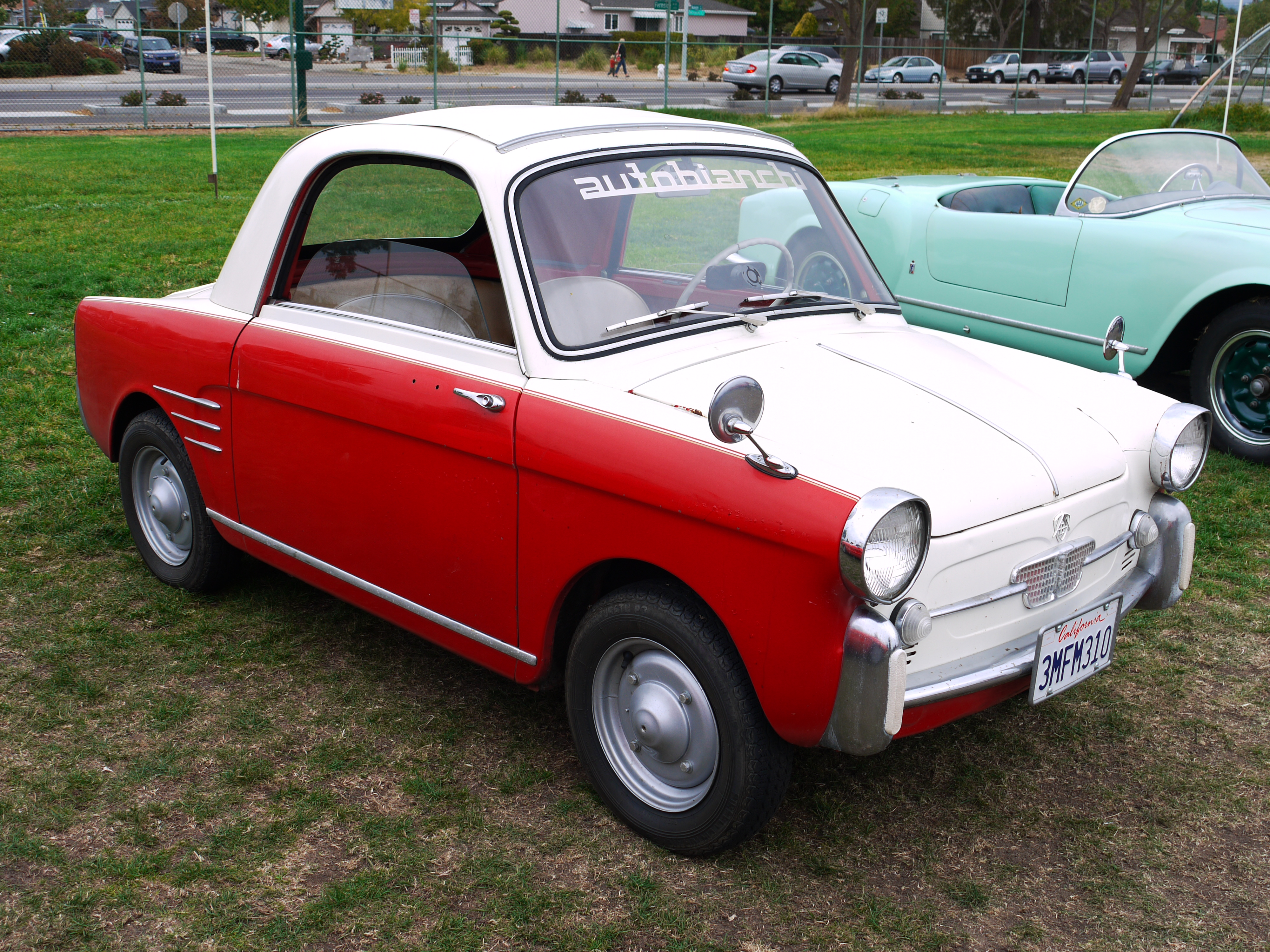 Autobianchi Bianchina Trasformabile at 2009 Alameda All Italian Car & Motorcycle Show